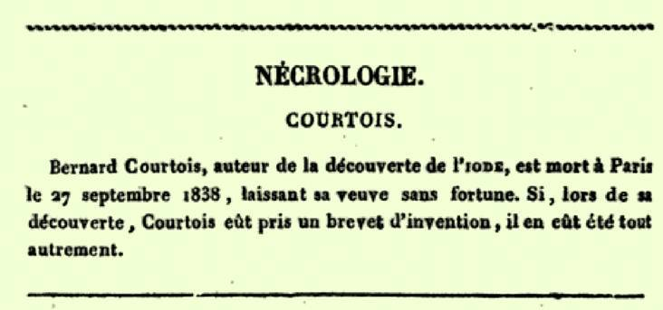 Picture of Necrology of Bernard Courtois, who discovered iodine Journal de chimie médicale, de pharmacie et de toxicologie - p 596